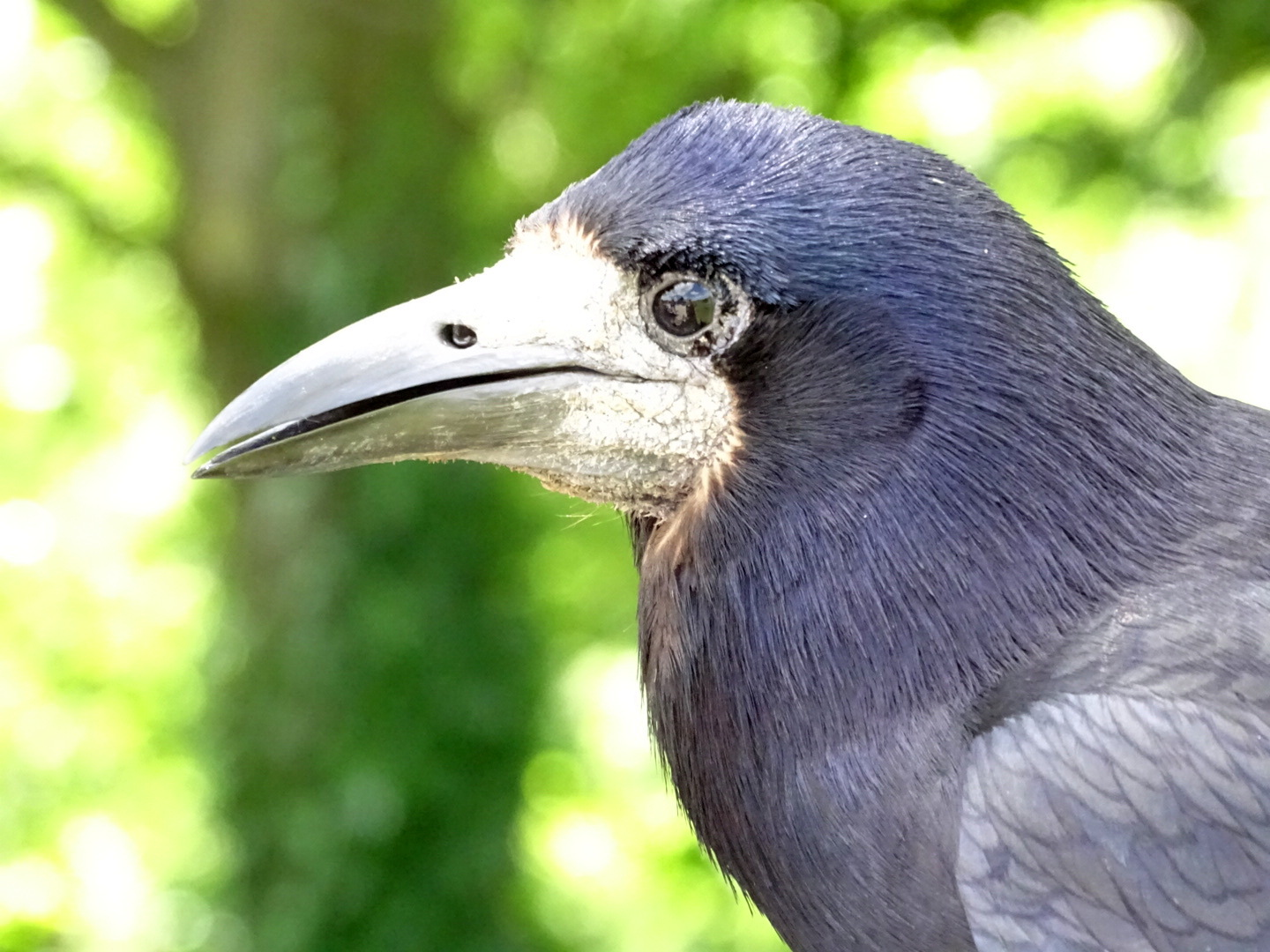 Rook at the Cafe, Marwell Zoo